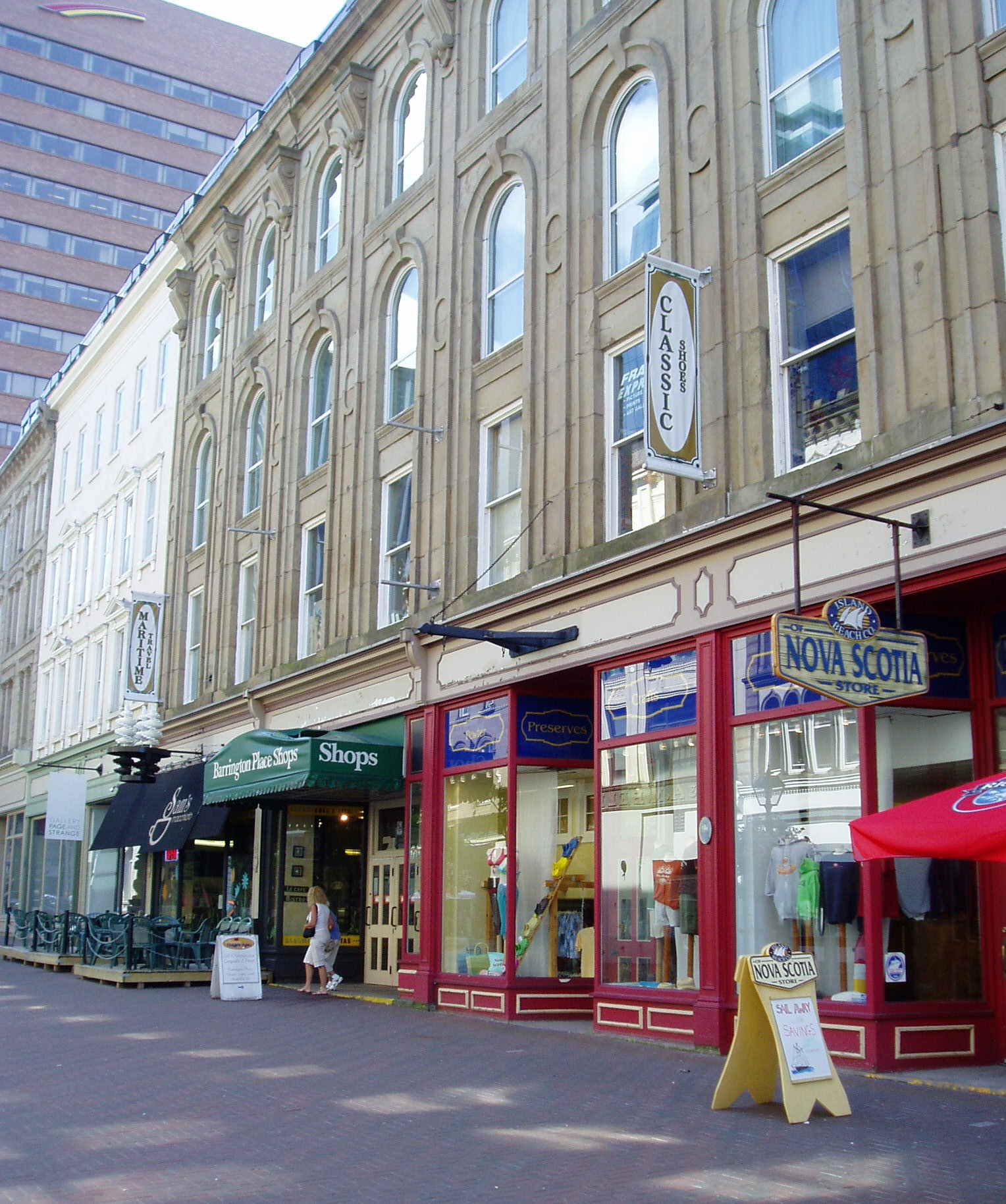 The Granville Mall in downtown Halifax, Nova Scotia, Canada. Taken by SimonP